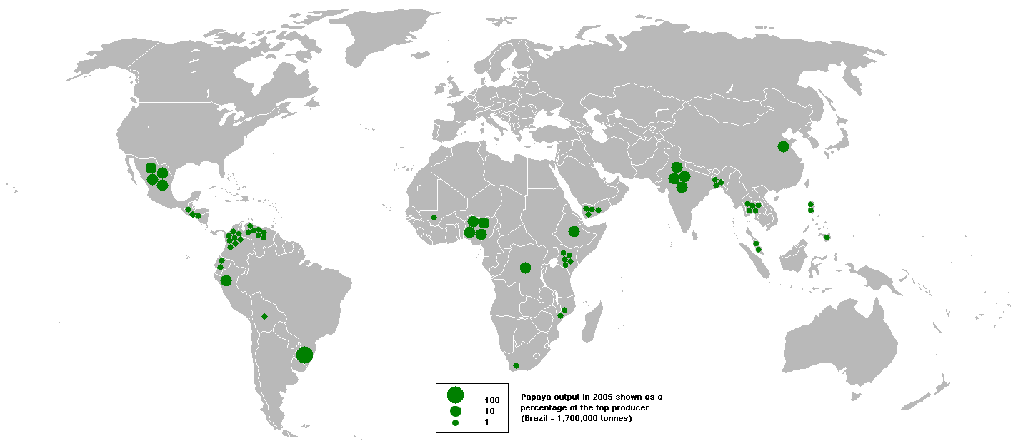 This bubble map shows the global distribution of papaya output in 2005 as a percentage of the top producer (Brazil – 1,700,000 tonnes). This map is consistent with incomplete set of data too as long as the top producer is known. It resolves the accessibility issues faced by colour-coded maps that may not be properly rendered in old computer screens. The image is based on File:BlankMap-World.png. The data was extracted on 14 June 2007 from